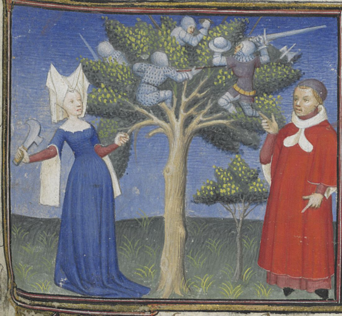 depiction of medieval woman